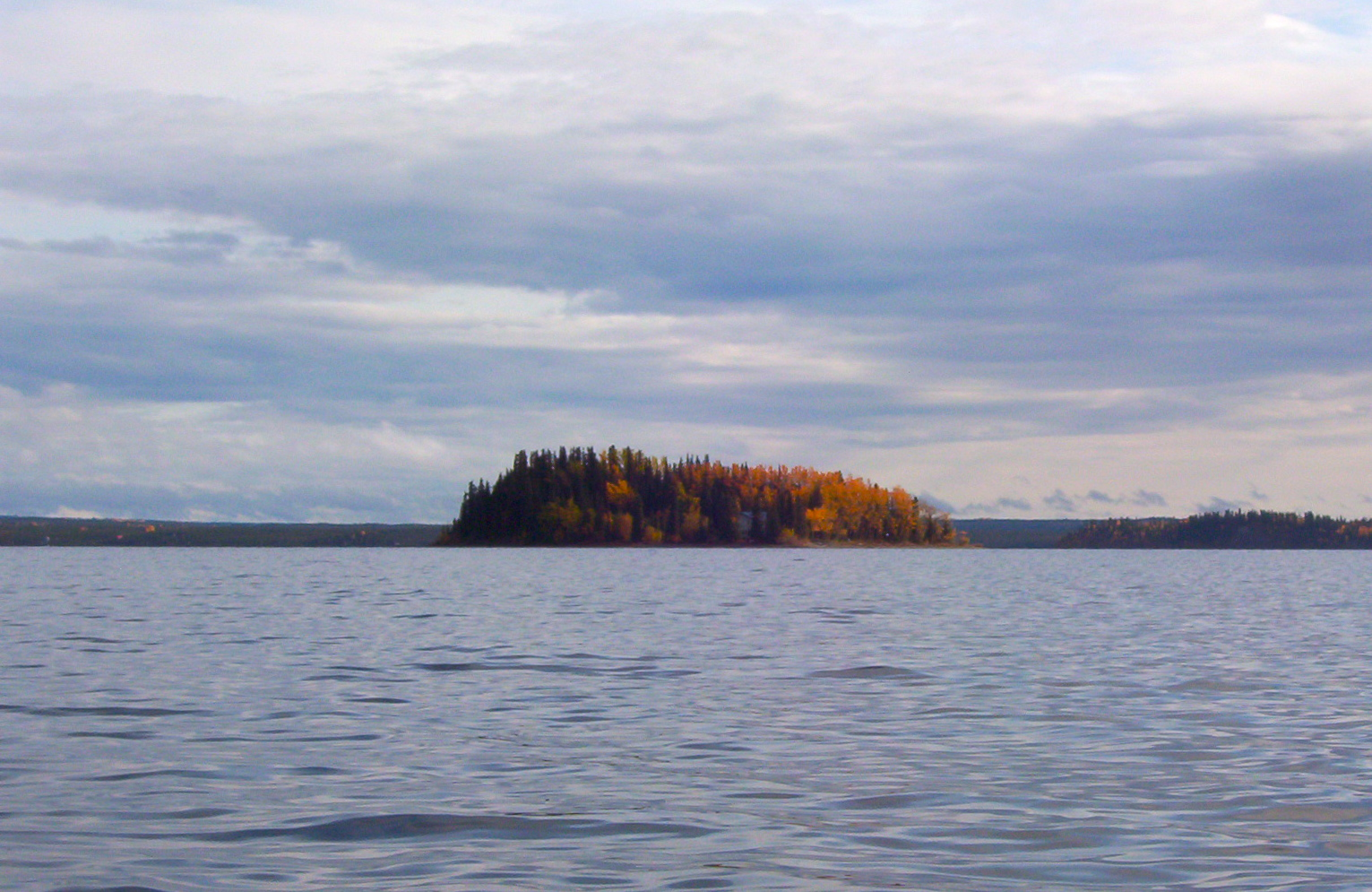 an island with a house on it, Lake Louise